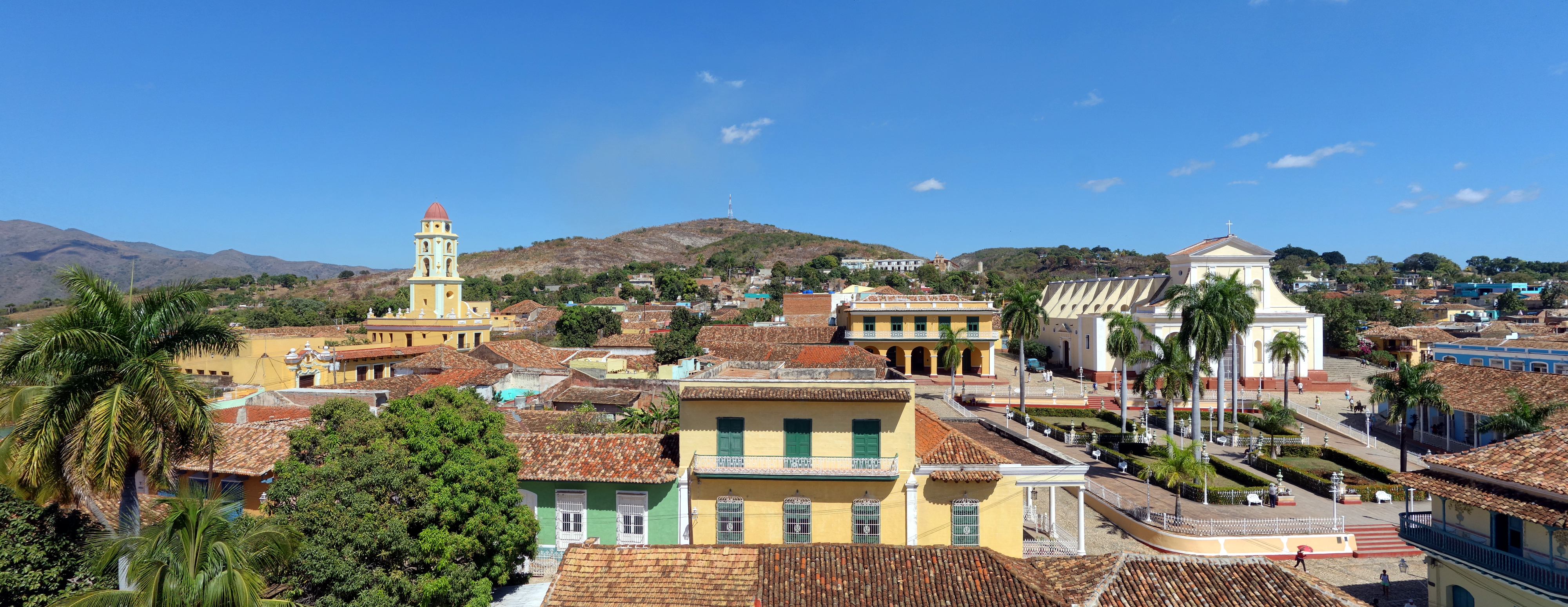 View of Trinidad city center from the Palacio Cantero tower.